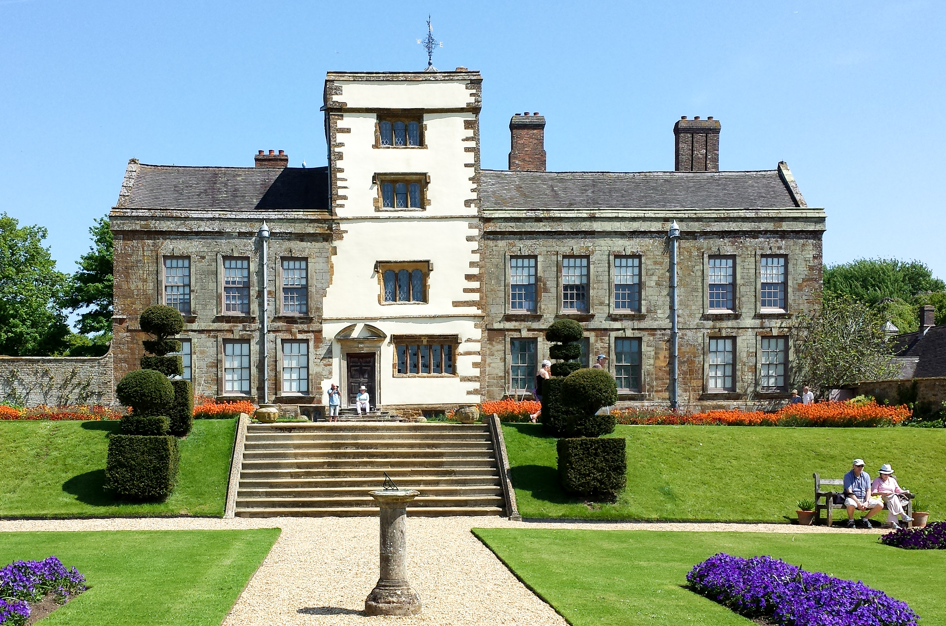 Canons Ashby House, Daventry, England. Dating from the mid 16th century.